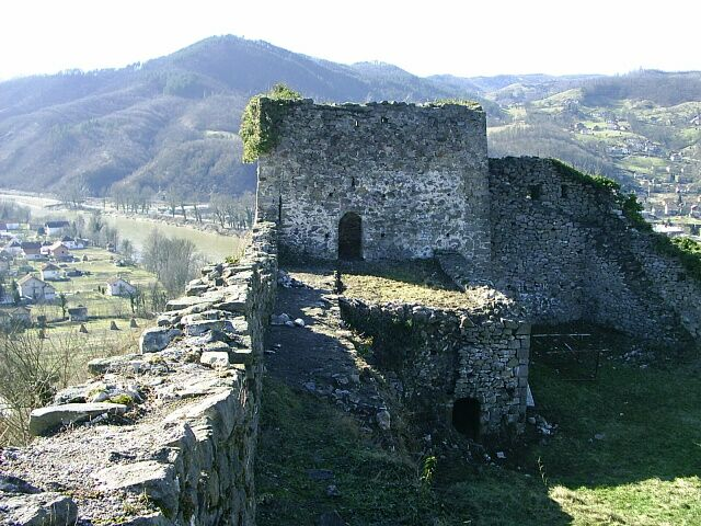 The town of Maglaj with a historical castle in central Bosnia and Herzegovina